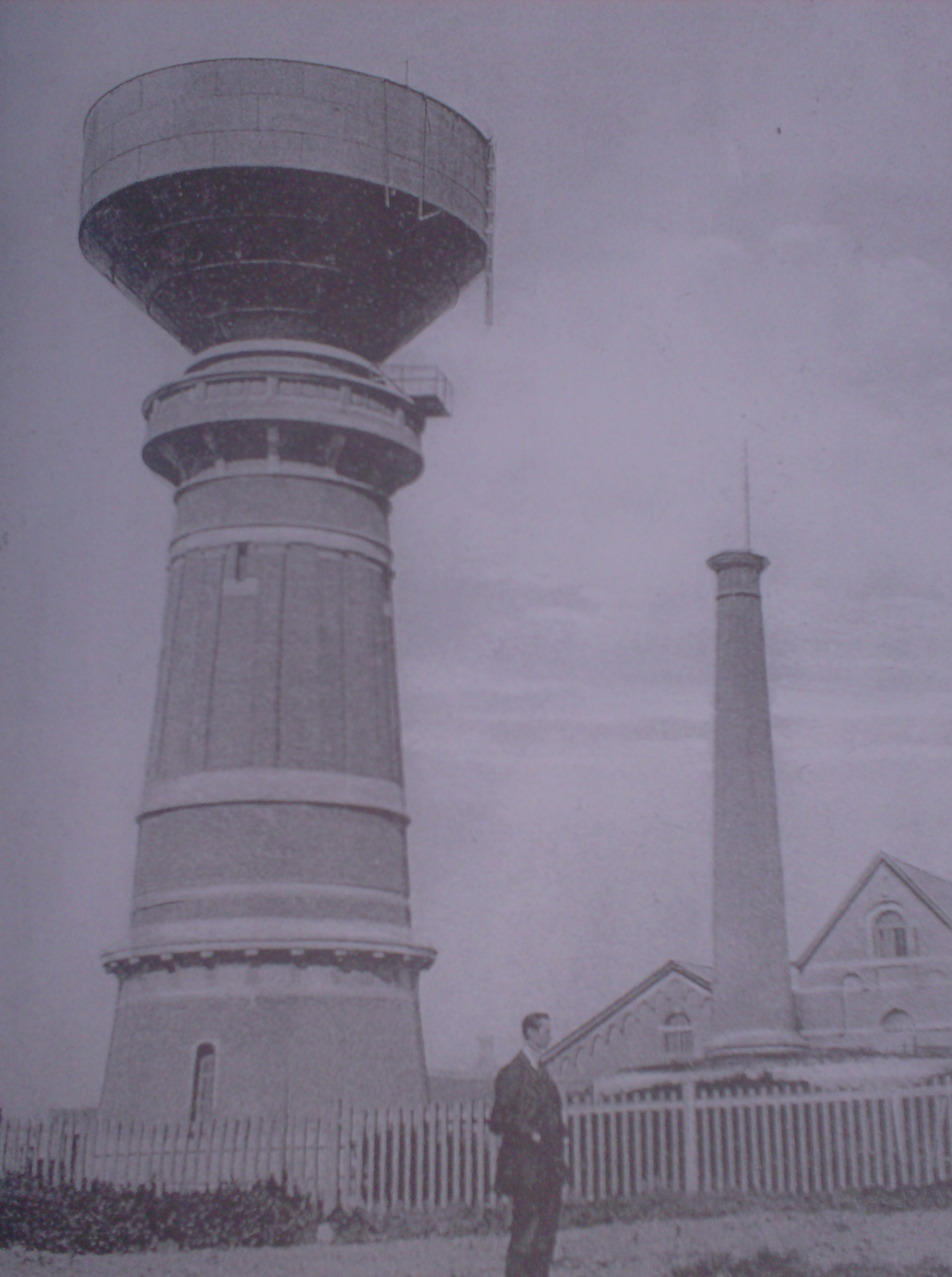 Old water tower in Blankenberge (Belgium) (1895)